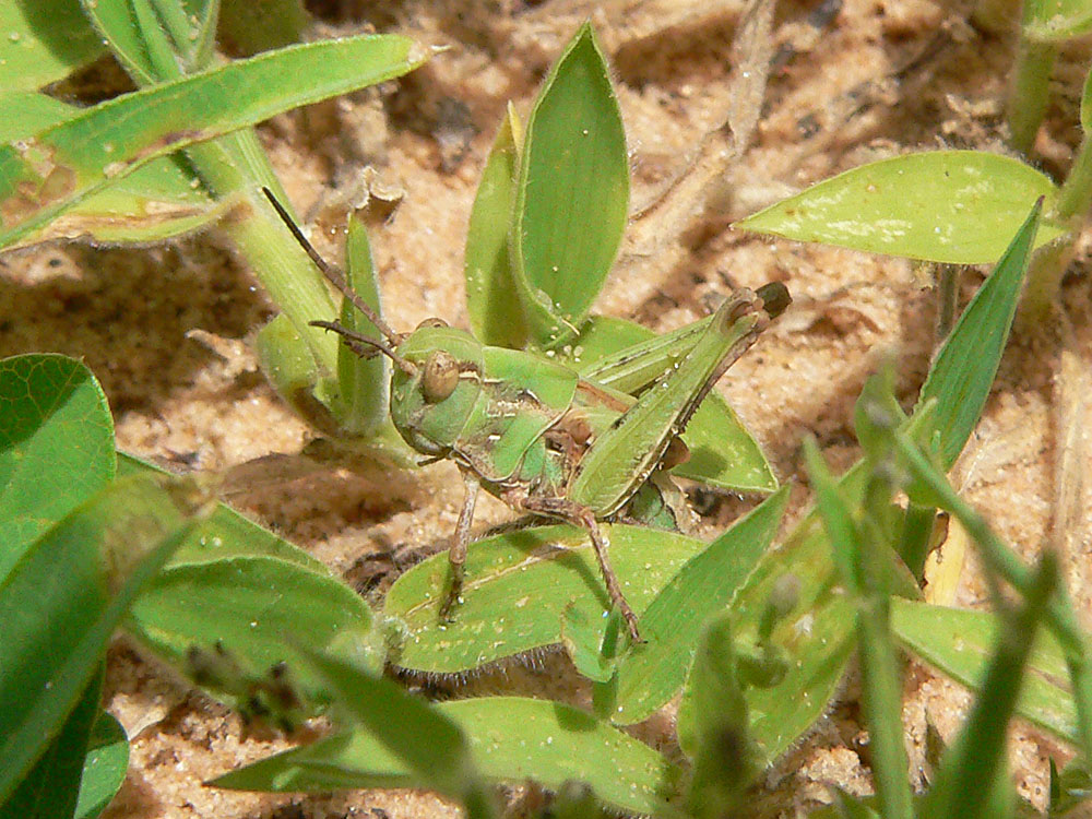 Fifth instar Senegalese grasshopper (Oedaleus senegalensis) photographed near Janbirji, eastern Niger